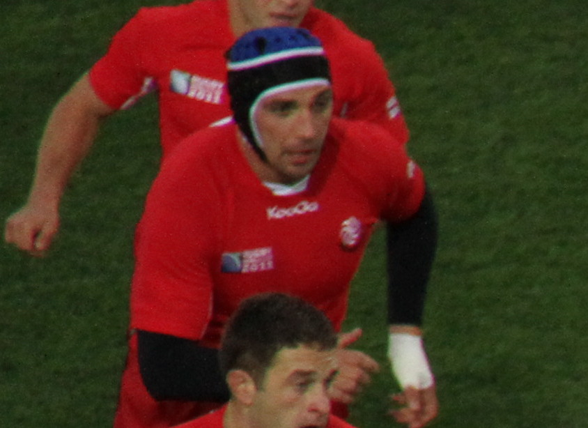 Georgian rugby union player Ilia Zedginidze during 2011 Rugby World Cup against England.